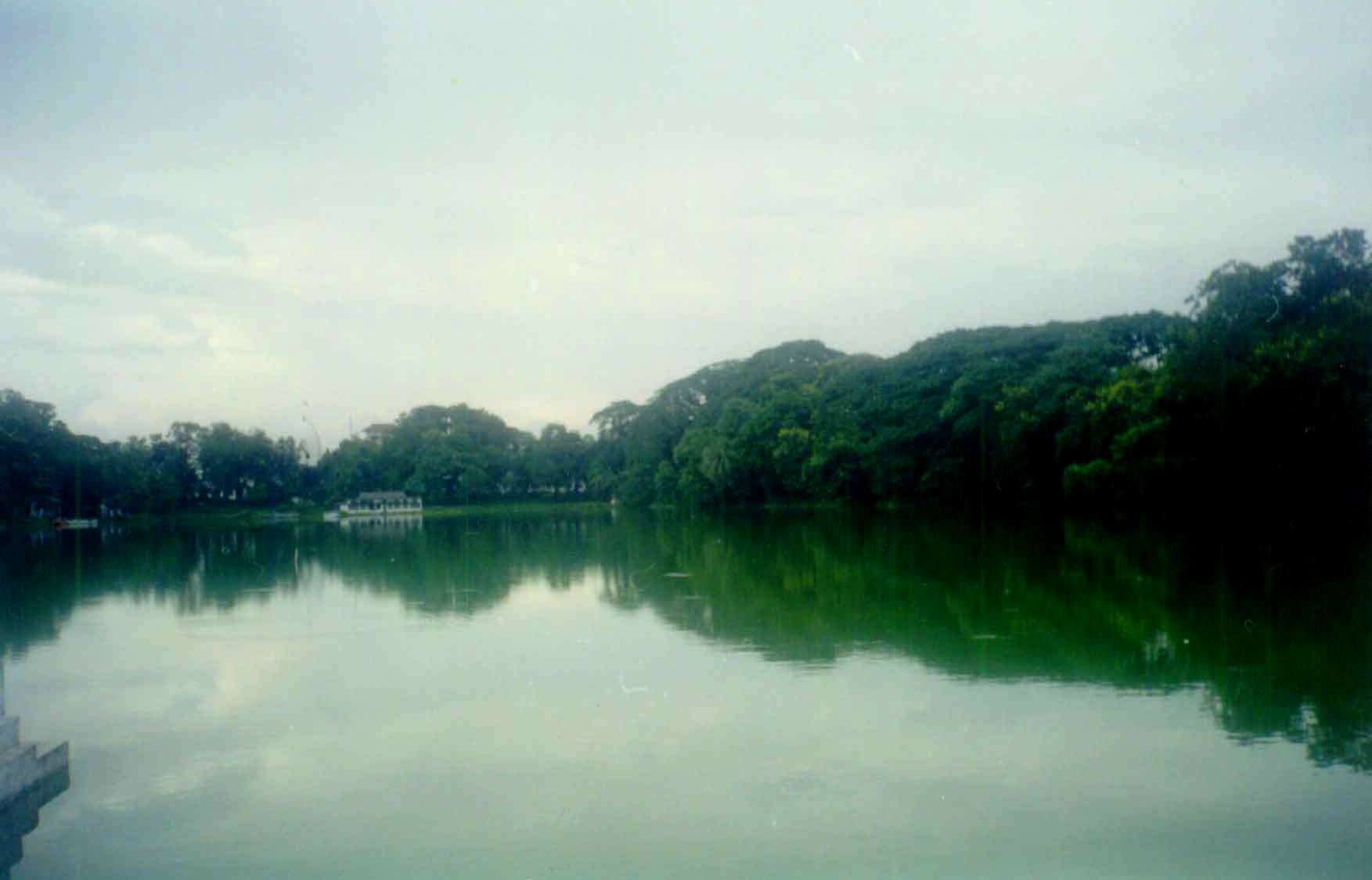 Digholy Pukhury, Guwahati